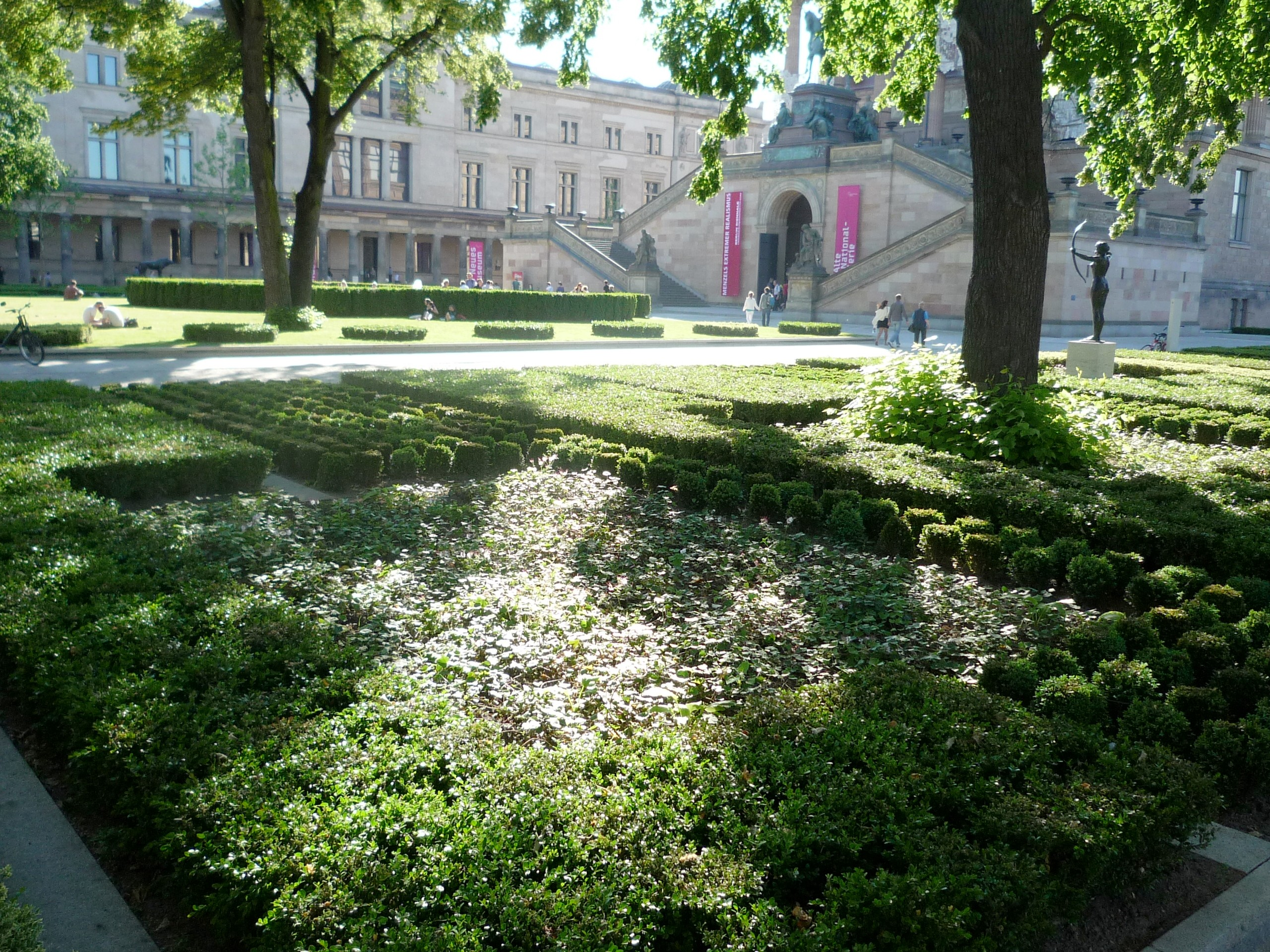 Berlin, Museumsinsel. Planted place ("Kolonnadenhof") in front of Neues Museum (left) and Alte Nationalgalerie.